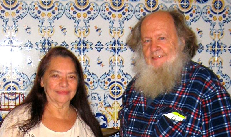 Adrien et Regine Douady on 2 November 2006. Picture taken by Josh Bowman.